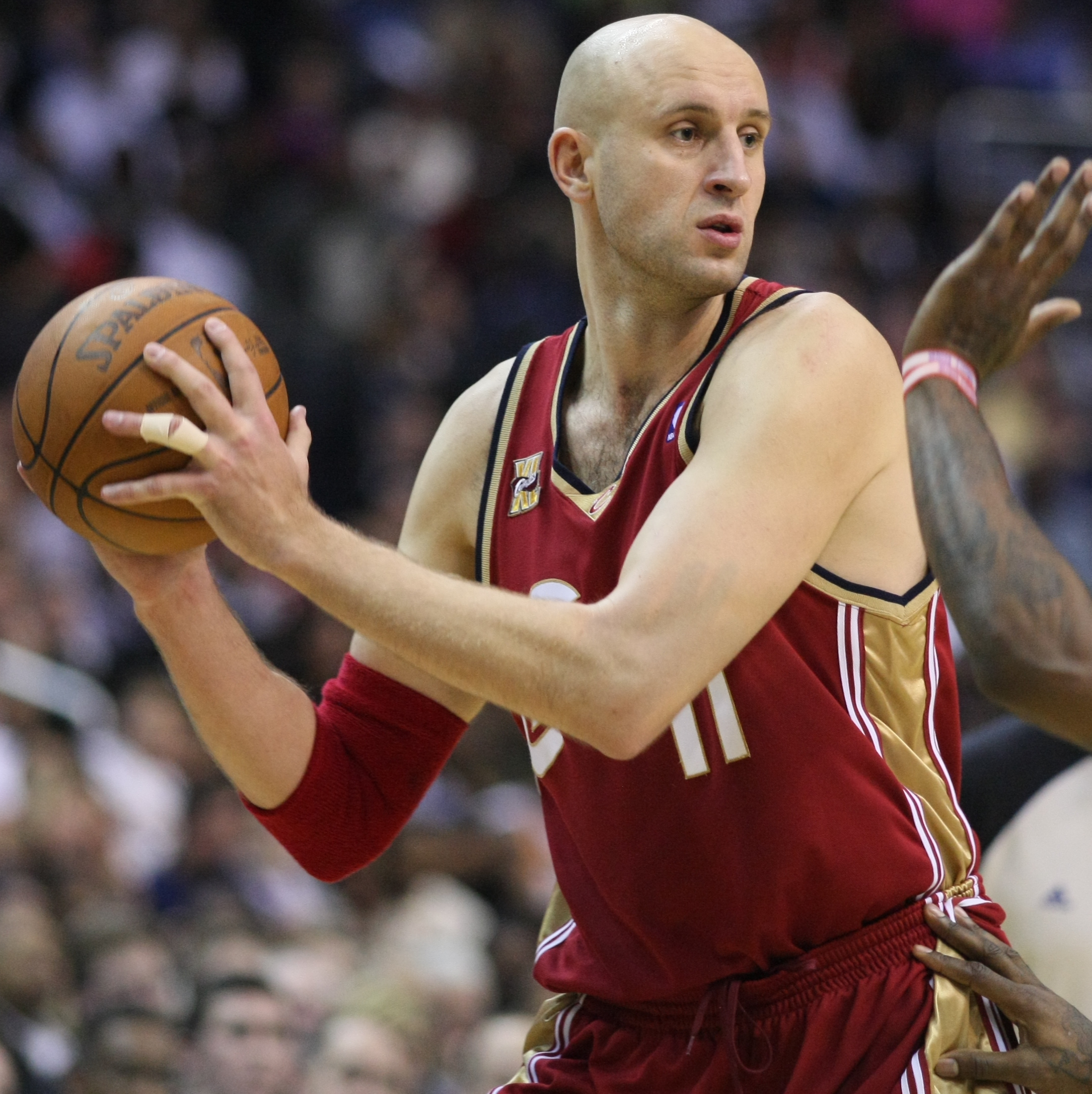 Žydrūnas Ilgauskas with Cleveland Cavaliers vs. Washington Wizards, November 18, 2009 at Verizon Center in Washington.